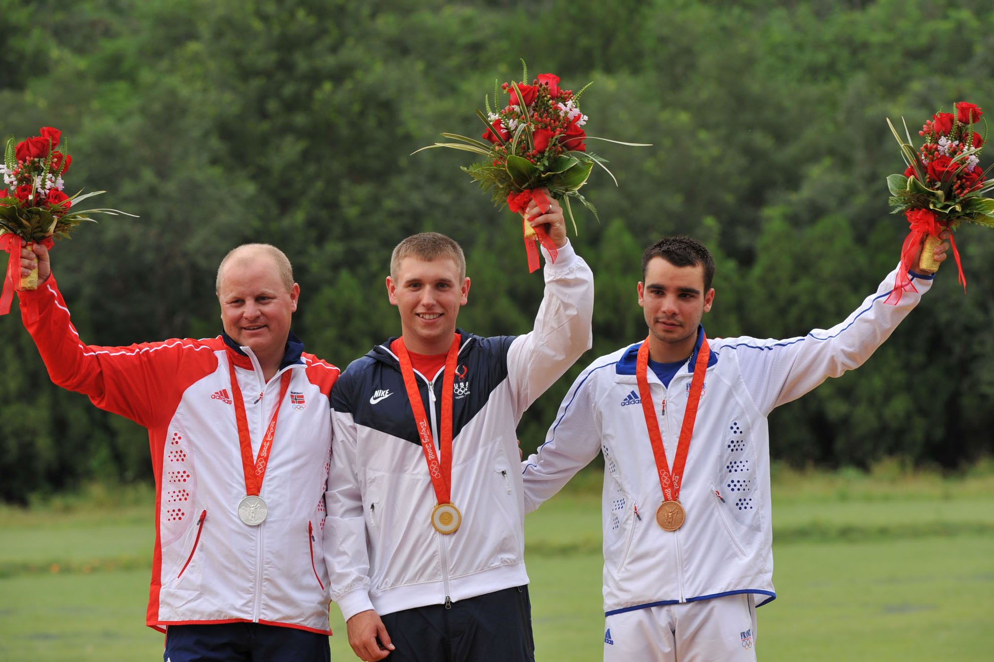 Olympic skeet gold medal winner Pfc. Vincent Hancock (center) of the U.S. Army Marksmanship Unit, is flanked by silver medalist Tore Bovold (sic) (left) of Norway and bronze medalist Anthony Terras (right) of Italy (sic) on the podium, Aug. 16, 2008, in Beijing. U.S. Army photo by Tim Hipps